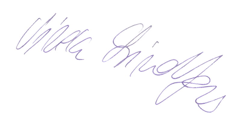 signature of actress Viveca Lindfors